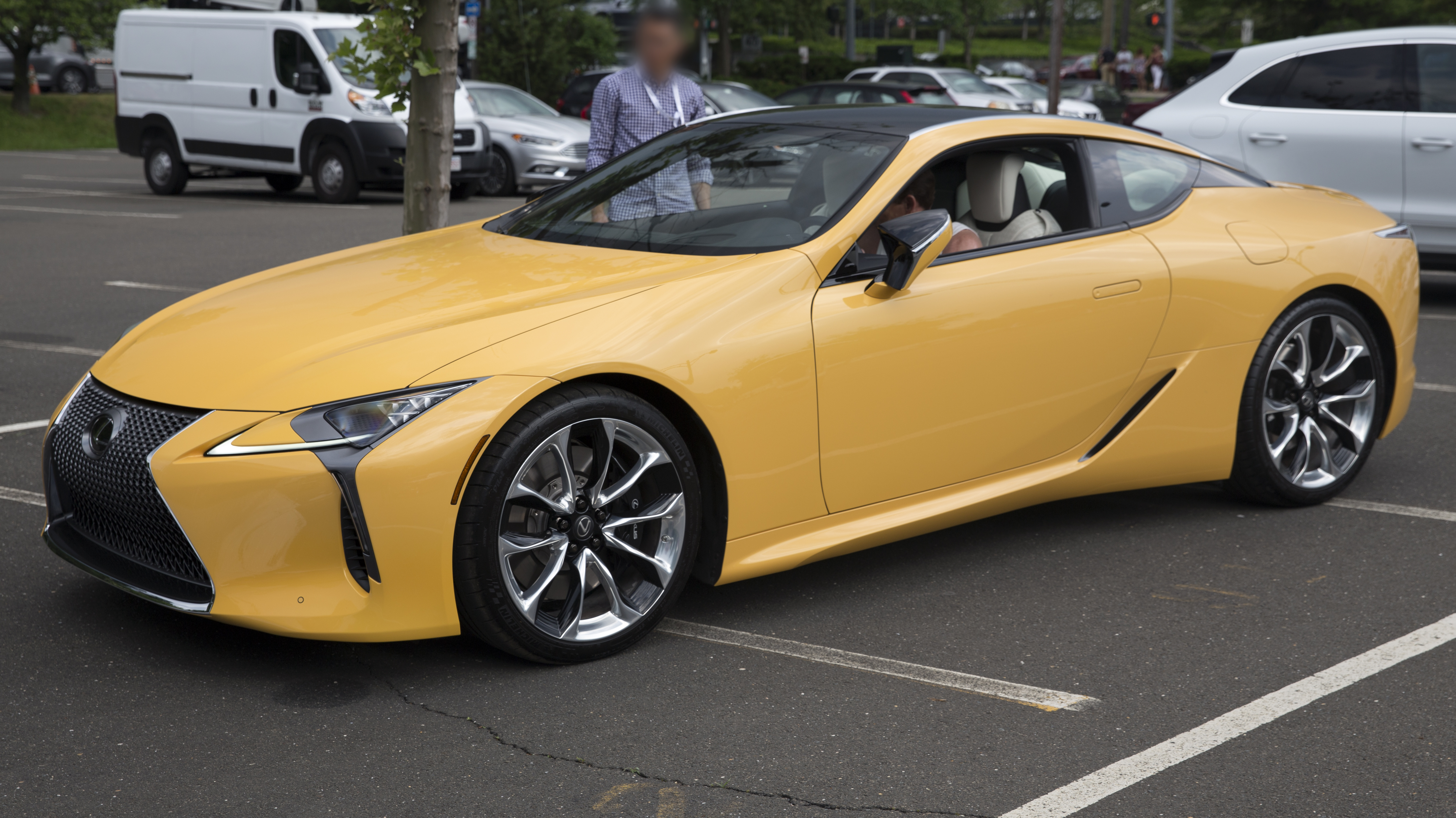 2019 Lexus LC500 in a very nice shade of Yellow, leaving the 2019 Greenwich Concours d'Elegance.